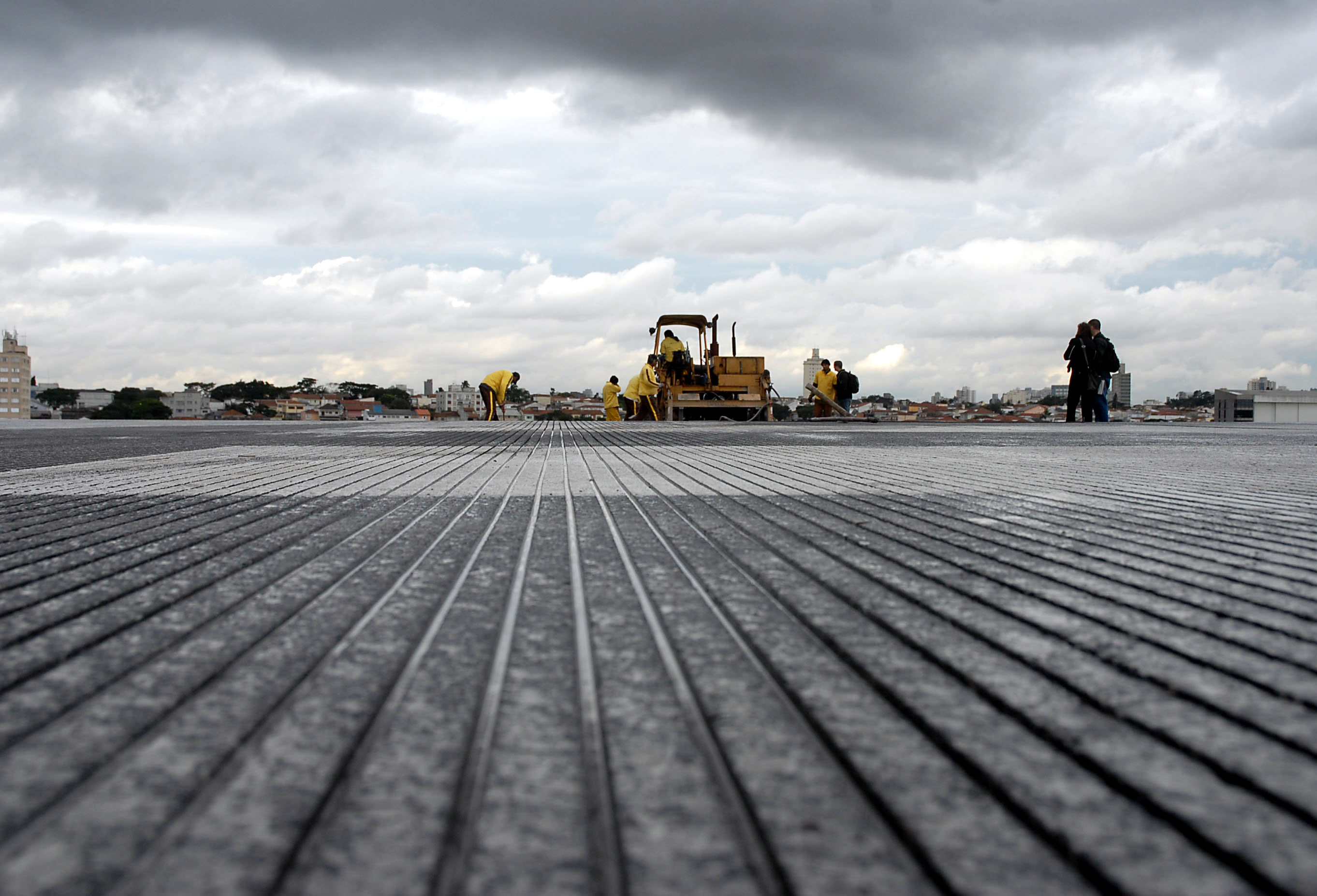 São Paulo - Workers adding grooves to the main runway at Congonhas International Airport. These grooves improve drainage and create additional friction which aids braking.